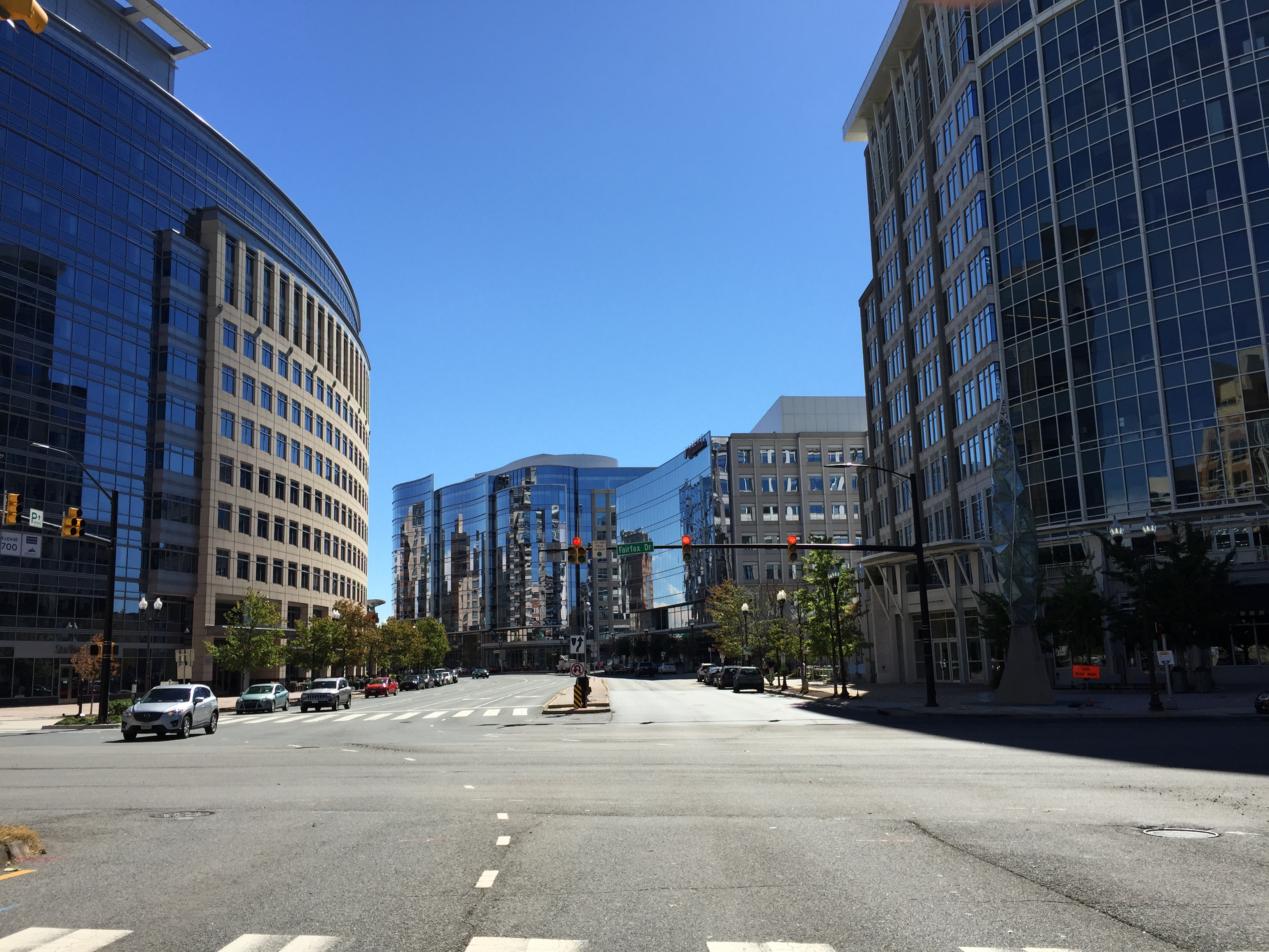 View south along Virginia State Route 120 (Glebe Road) at Virginia State Route 237 (Fairfax Drive) in Arlington County, Virginia